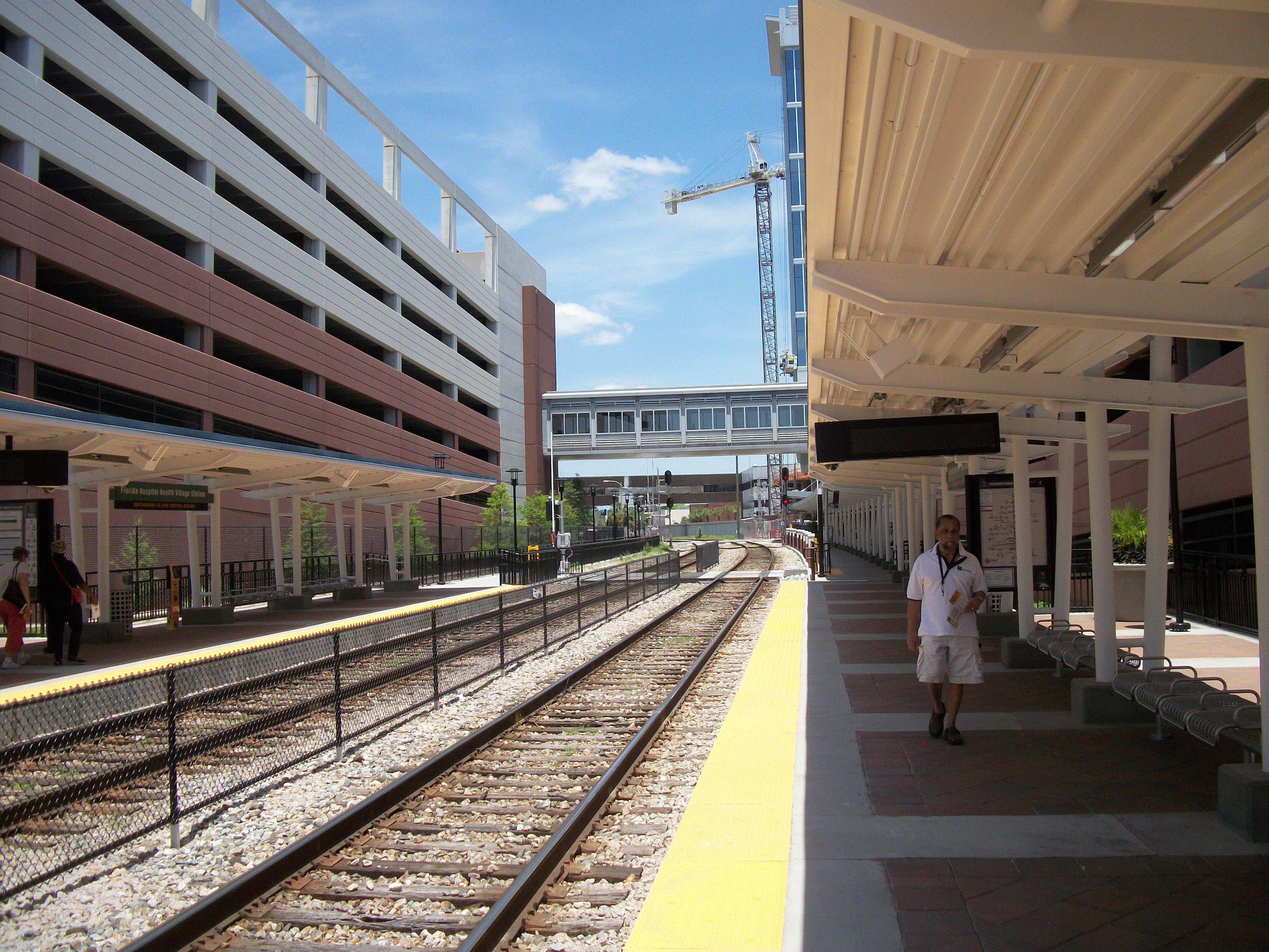 Looking north from the Florida Hospital Health Village SunRail station in Orlando, Florida. There's some extra construction going on at the hospital itself north of the pedestrian bridges at the station, but what this picture doesn't show is the closing of East Rollins Street on the east side of the tracks. For the record, those pedestrian bridges were there before this station was.